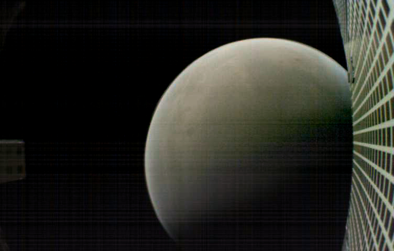 MarCO-B, one of the experimental Mars Cube One (MarCO) CubeSats, took this image of Mars from about 4,700 miles (6,000 kilometers) away during its flyby of the Red Planet on Nov. 26, 2018. MarCO-B was flying by Mars with its twin, MarCO-A, to attempt to serve as communications relays for NASA's InSight spacecraft as it landed on Mars. This image was taken at about 12:10 p.m. PST (3:10 p.m. EST) while MarCO-B was flying away from the planet after InSight landed. The MarCO and InSight projects are managed for NASA's Science Mission Directorate, Washington, by JPL, a division of the California Institute of Technology, Pasadena.